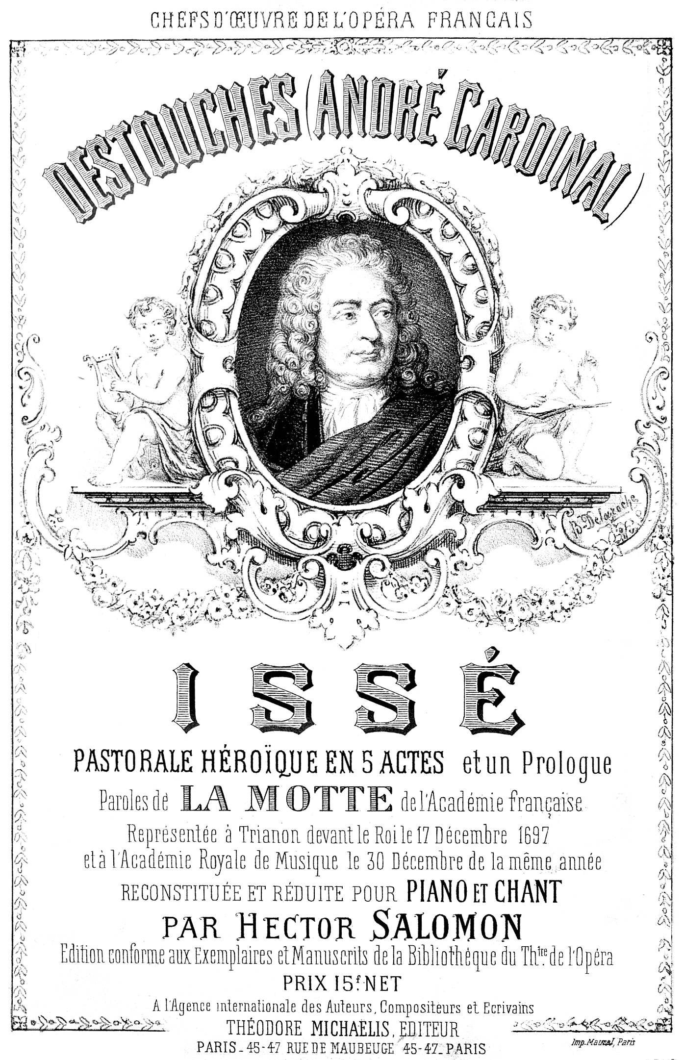 André Cardinal Destouches - Issé - title page of the piano score by Hector Salomon, Paris 1880